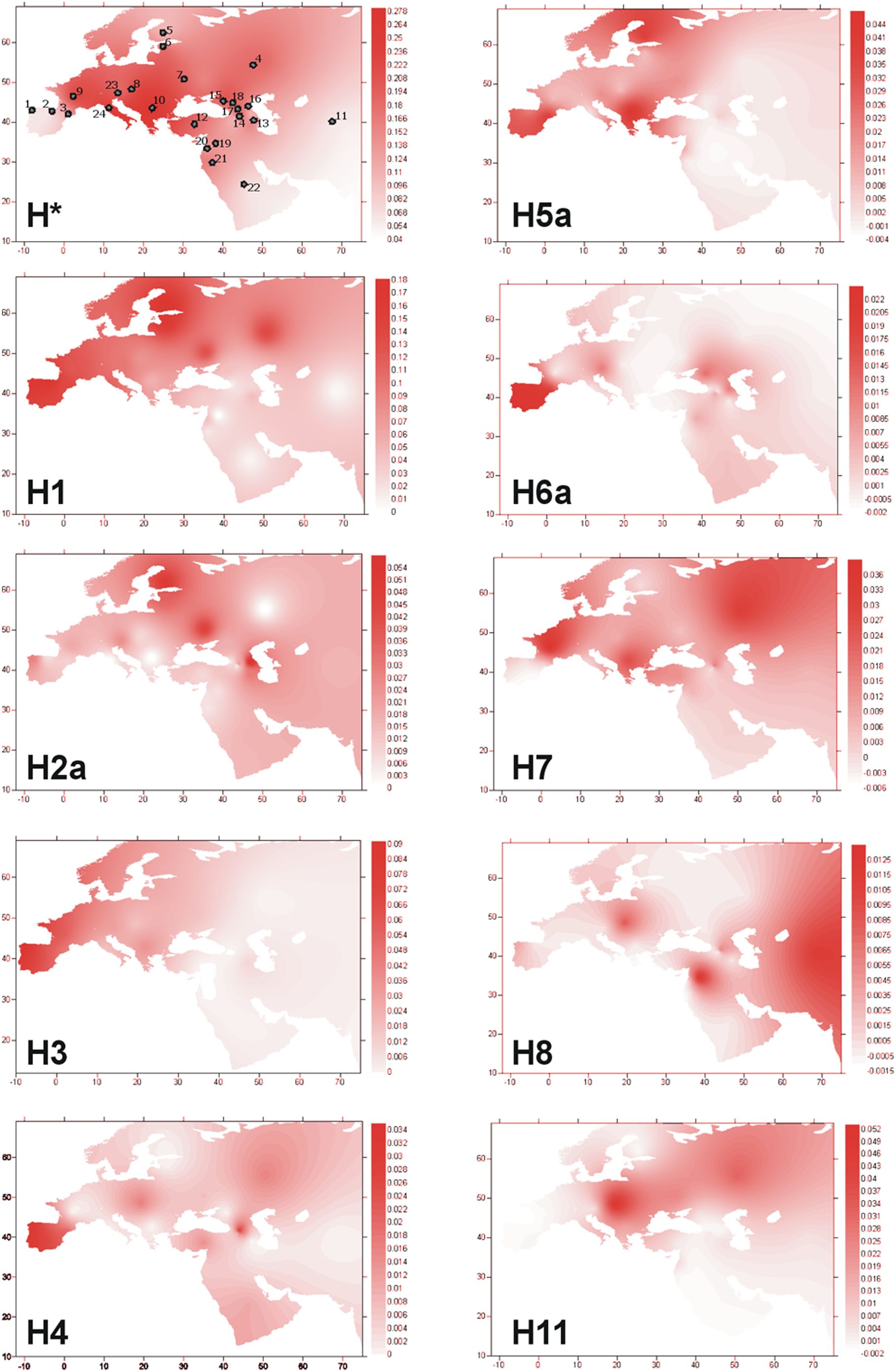 Geographic maps of haplogroup frequencies for haplogroups H*, H1, H2a, H3, H4, H5a, H6a, H7, H8, H11. Dots in the map of H* indicate the location of the populations used. Codes for populations are: [1] Galicia, [2] Cantabria, [3] Catalonia (present study); [4] Volga-Ural, [5] Finland, [6] Estonia, [7] Eastern Slavs, [8] Slovakia, [9] France, [10] Balkans, [11] Central Asia [3]; [12] Turkey, [13] Armenia, [14] Georgia, [15] Northwest Caucasus, [16] Daghestan, [17] Ossetia, [18] Karatchians-Balkarians, [19] Syria, [20] Lebanon, [21] Jordan, [22] Arabian Peninsula [4]; [23] Austria [6]; [24] Tuscani [14].